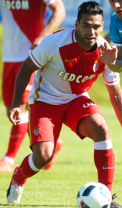 Radamel Falcao